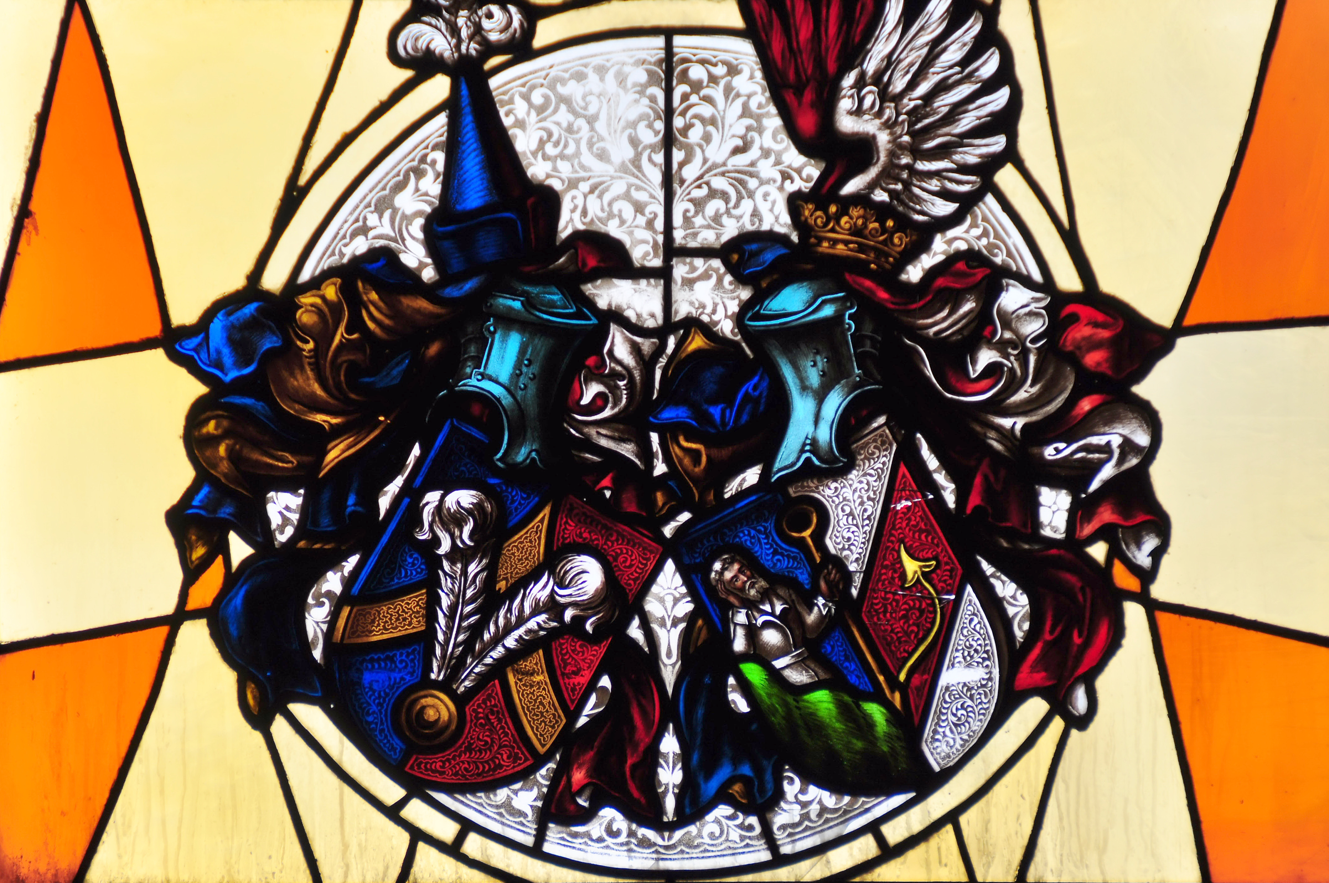 Rainer von Harbach`s crest around the year 1755, owner of the palace of Harbach in the Carinthian capital of Klagenfurt in Carinthia / Austria / European Union. The Harbach coat-of-arms-window - monastery church, St. Anna-monastery at Harbach in Klagenfurt´s district Saint Peter